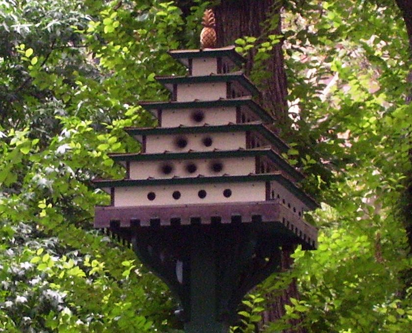 One of the birdhouses in Gramercy Park, Manhattan, New York City